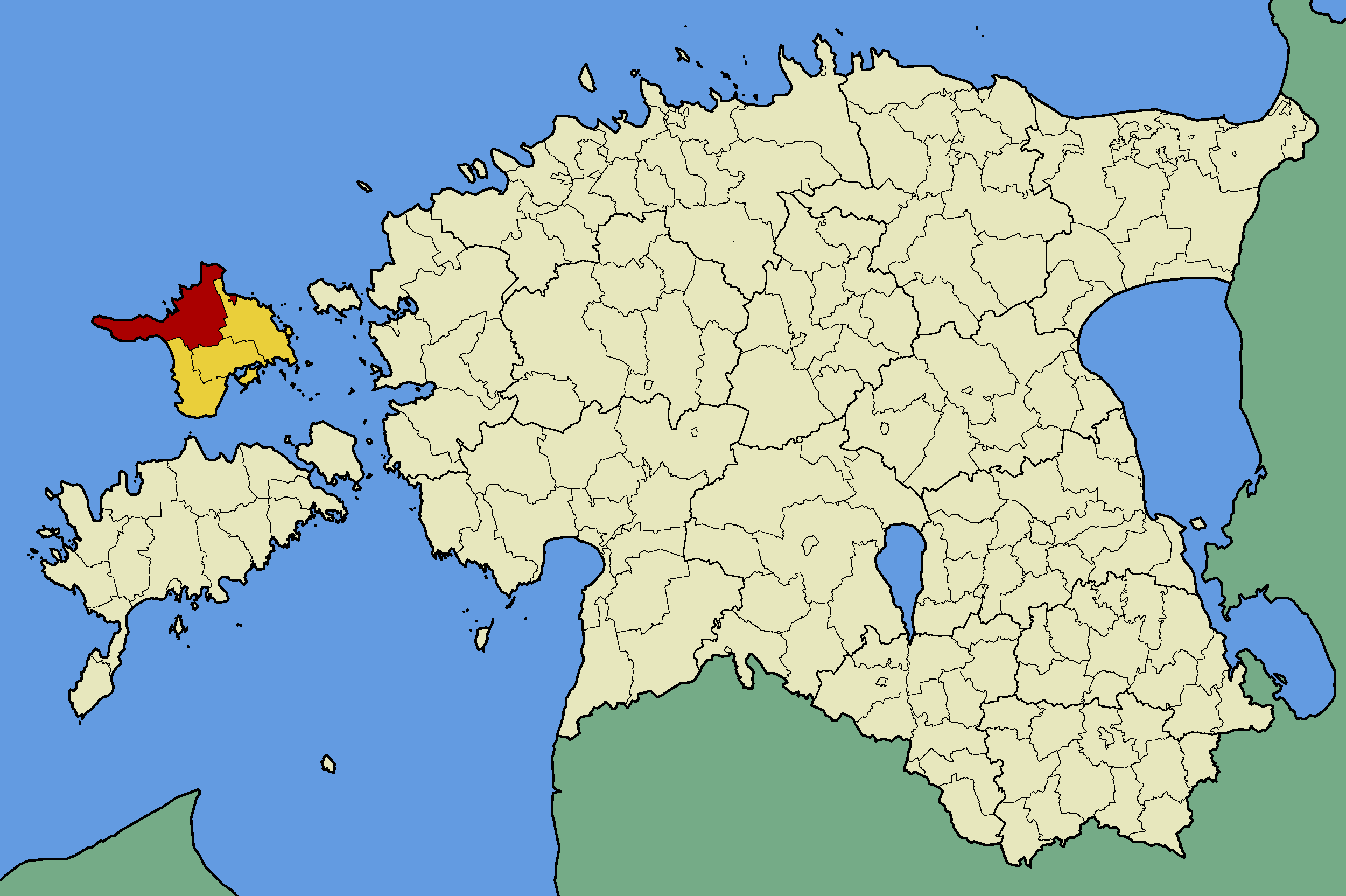 Map of Estonia with borders of municipalities (parishes). Hiiu county and Hiiu municipality emphasized.